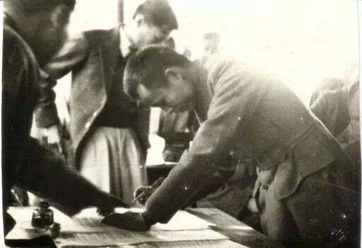 General Aung San signing Panglong Agreement